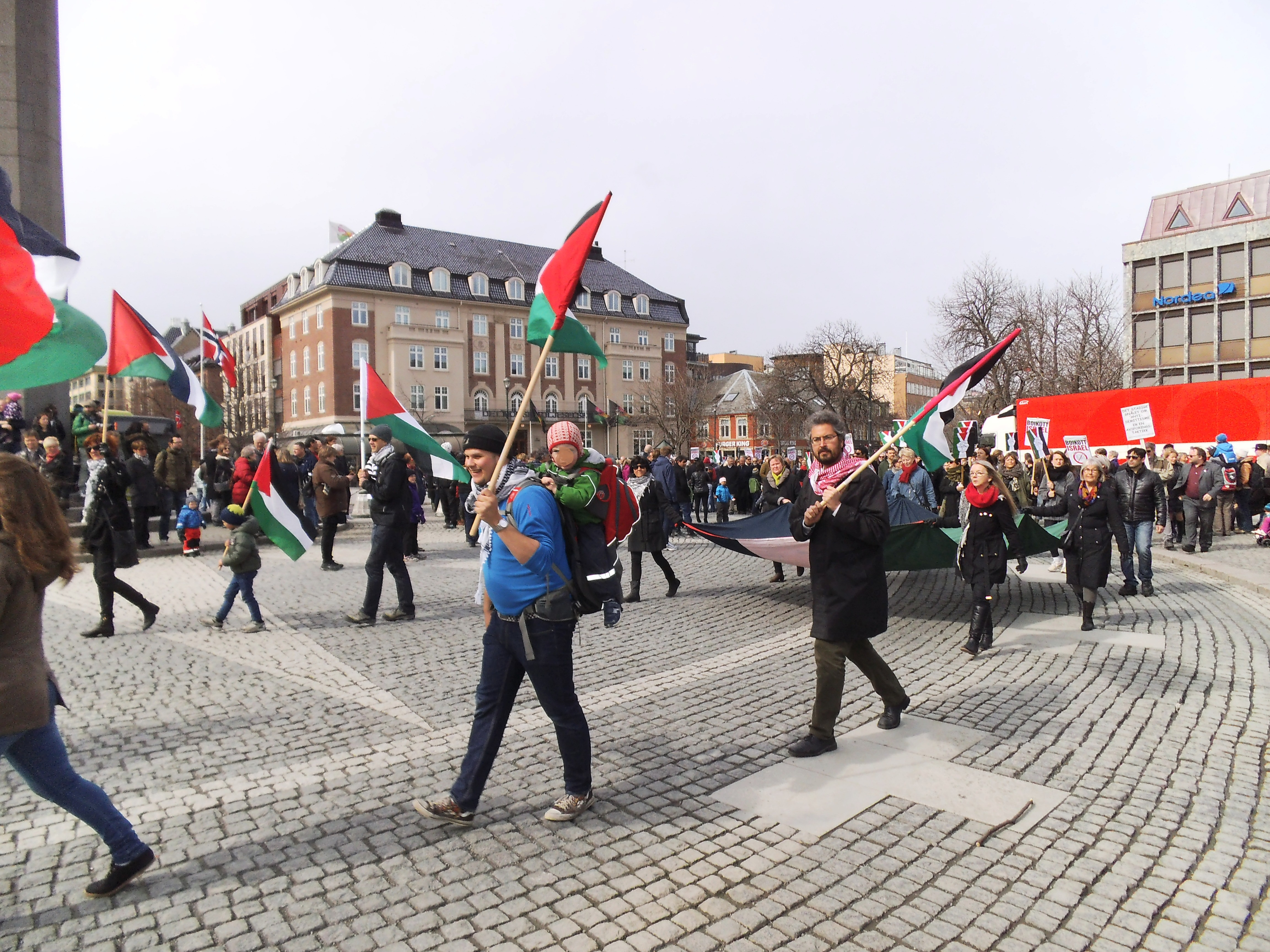 Protesters in Trondheim who sympathize with Palestine on International workers day in 2013.